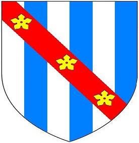 Arms of Stradling of St Donat's Castle: Paly of six argent and azure, on a bend gules three mullets or